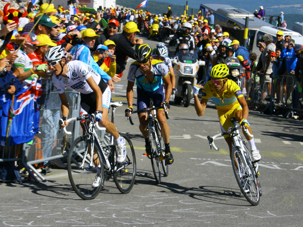 Andy Schleck, Lance Armstrong & Alberto Contador at the last turn of Mt. Ventoux